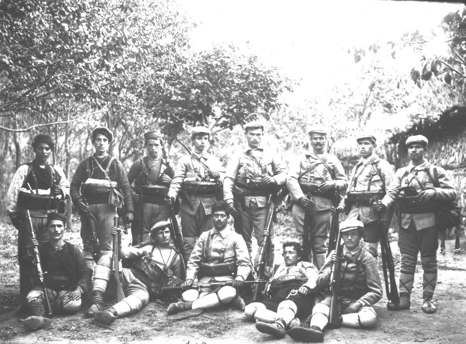 Cheta of Shterio Ionana, Kriva palanka IMARO voevoda